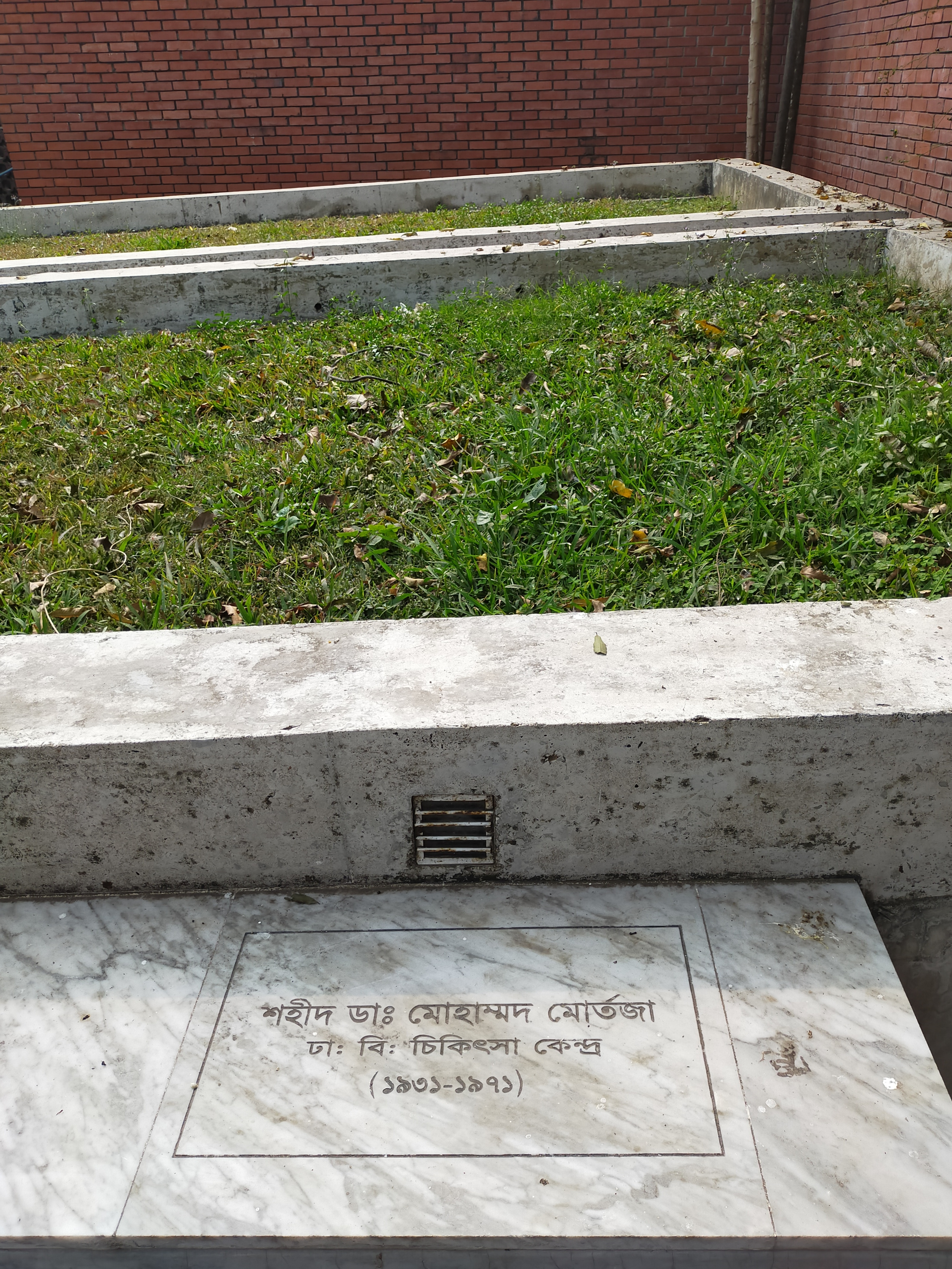 Grave of Dr. Mohammad Martuza (1931–1971) by the side of Dhaka University central mosque, a Bengali Physician and a martyred intellectual of 1971.